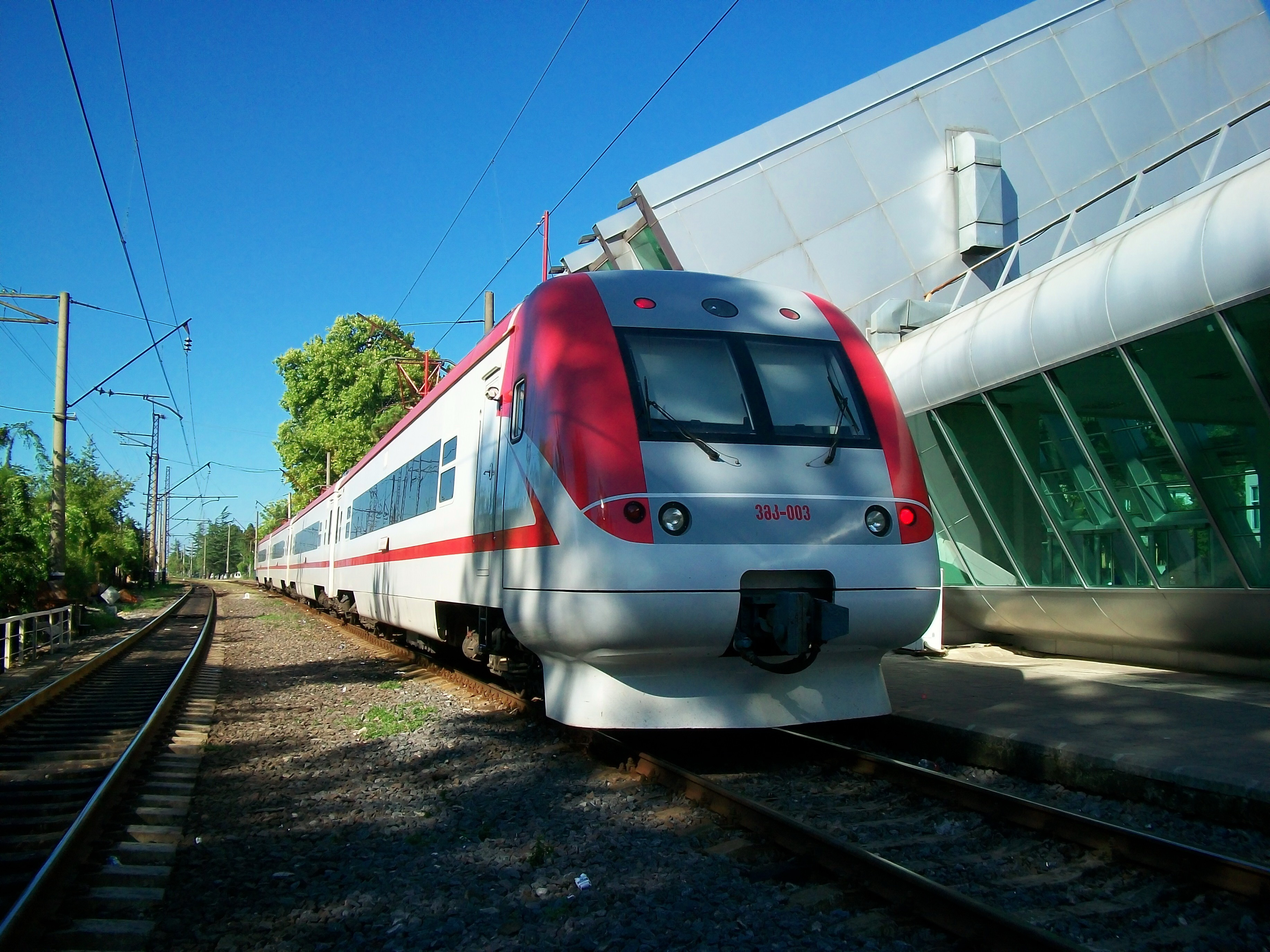 New VMK type interurban EMU built by VMK company, Rustavi,Georgia